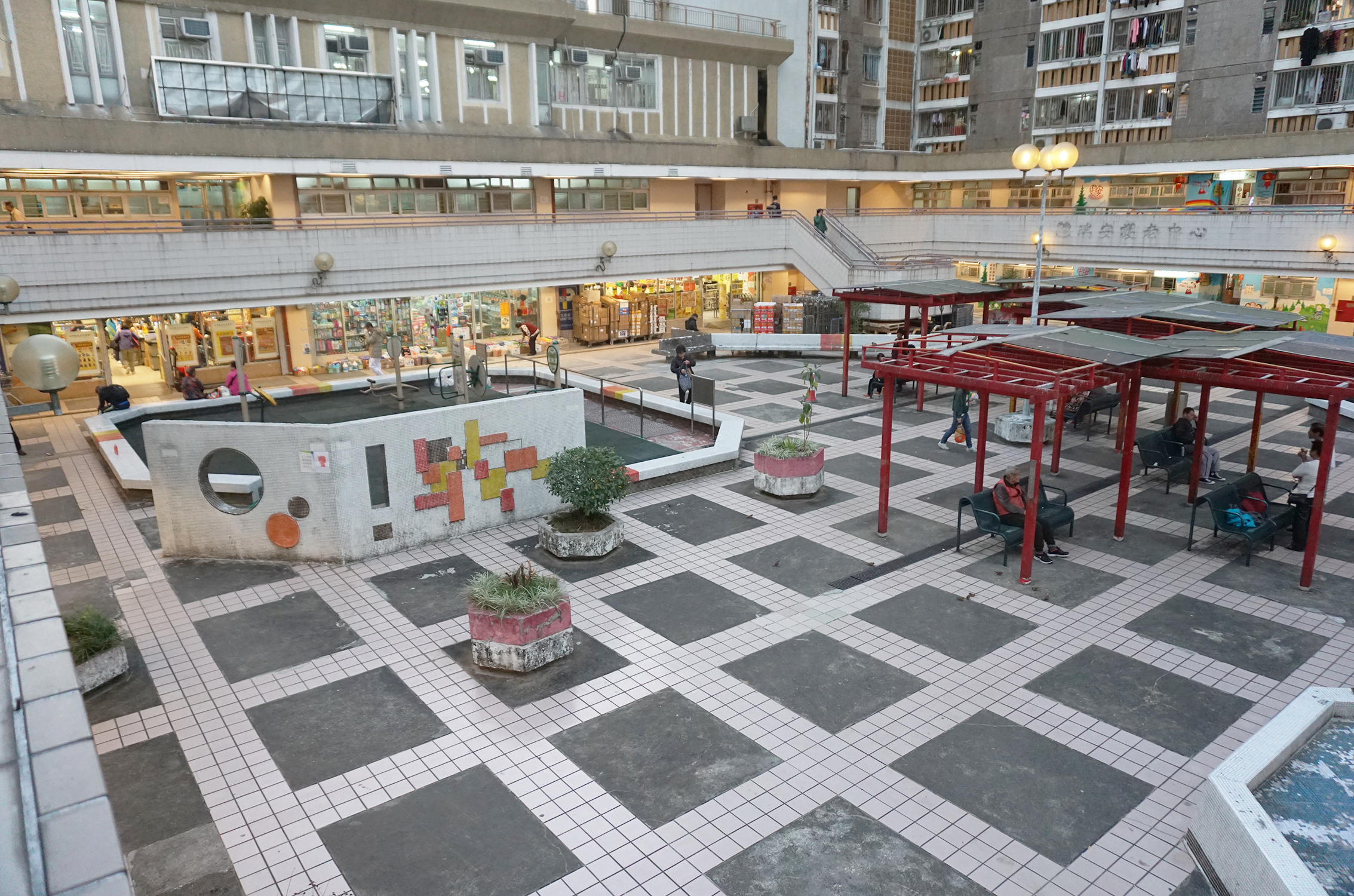 Sun Tin Wai Estate in Sha Tin Tau, Hong Kong.